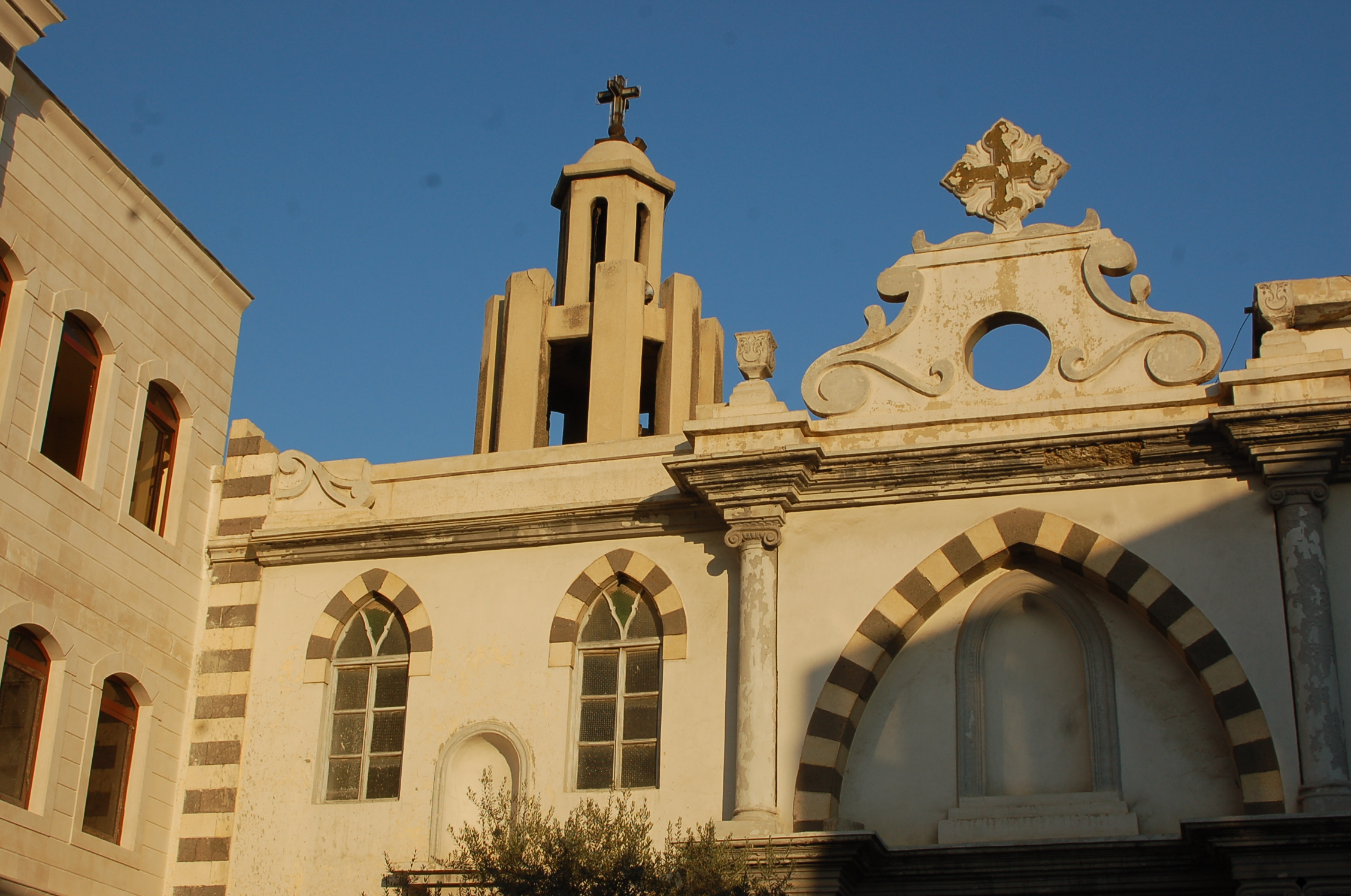 Although formally united with Rome since the 18th century, the Syriac Catholic Church belongs to the See of Antioch (which Saint Peter had established prior to his departure to Rome). The Patriarch of church bears the title of Patriarch of Antioch and all the East of the Syrians and resides in Beirut, Lebanon. This church is their seat in the city of Damascus.